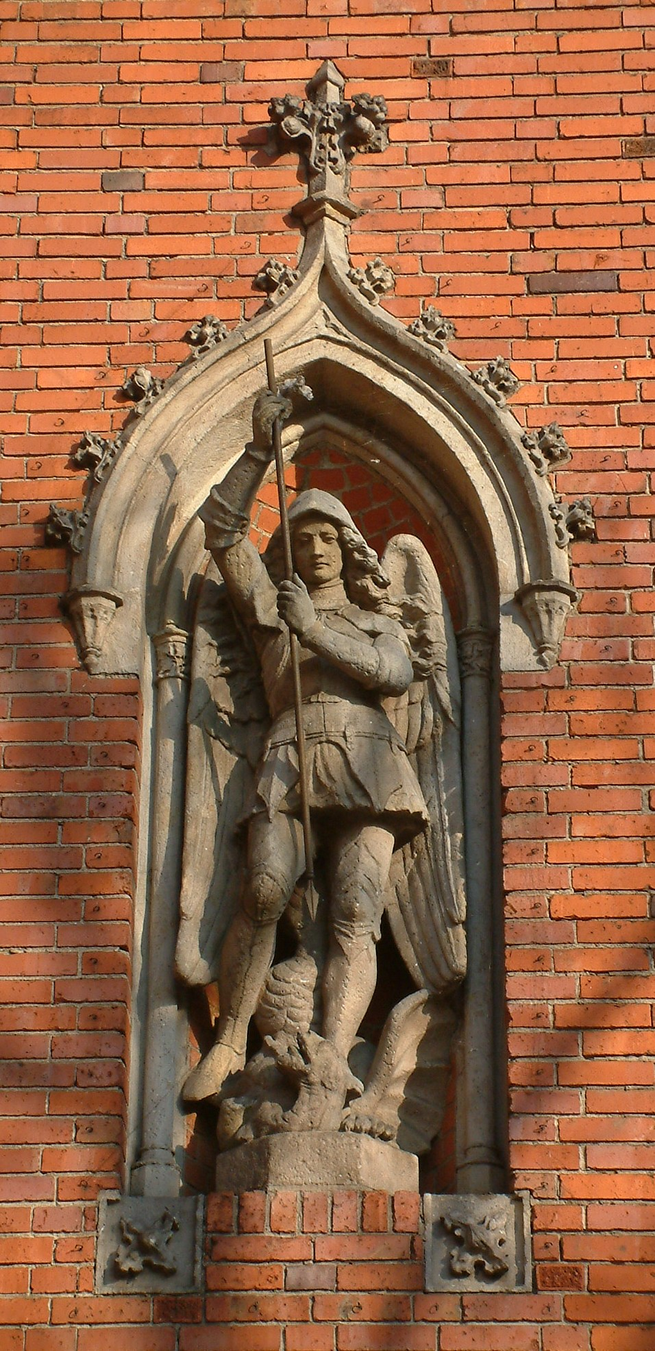 Satue of Archangel Michael carved by Ludwig Stürmer (1855) from Brama Dębińska of Stronghold Poznań, moved in 1908 to tower of Elemenatry School no. 36 in Poznań